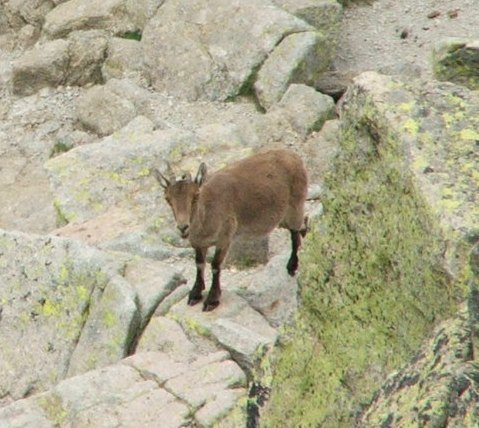 Female of Capra pyrenaica victoriae in Sierra de Gredos, Spain.